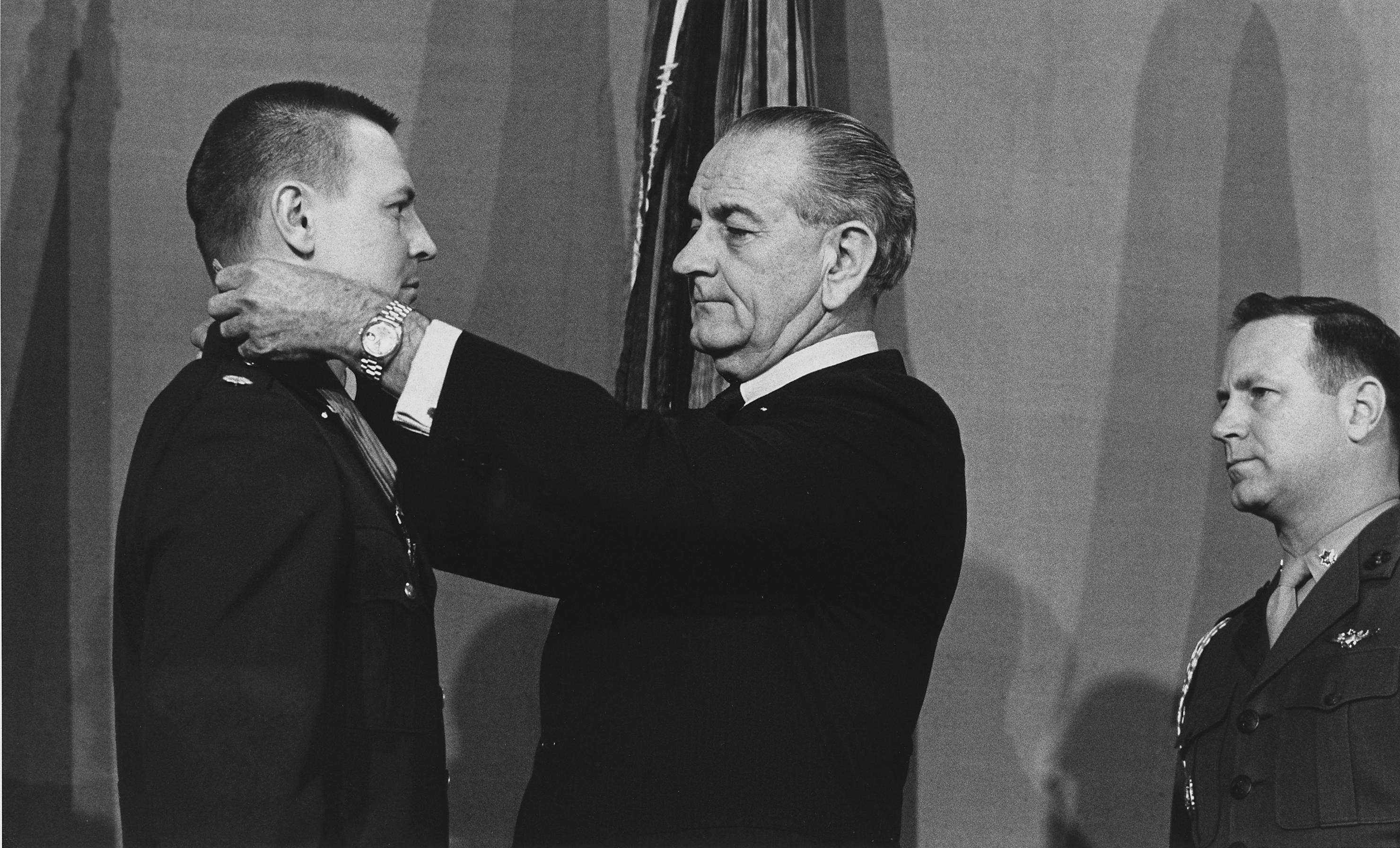 President Lyndon B. Johnson presents Medal of Honor to Major Merlyn Dethlefsen, United States Air Force.